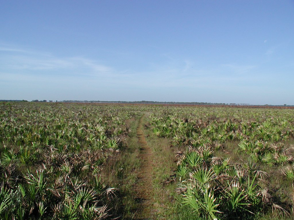 Hiking trail in Myakka River State Park Photographed in May, 2004, by Daniel Holth